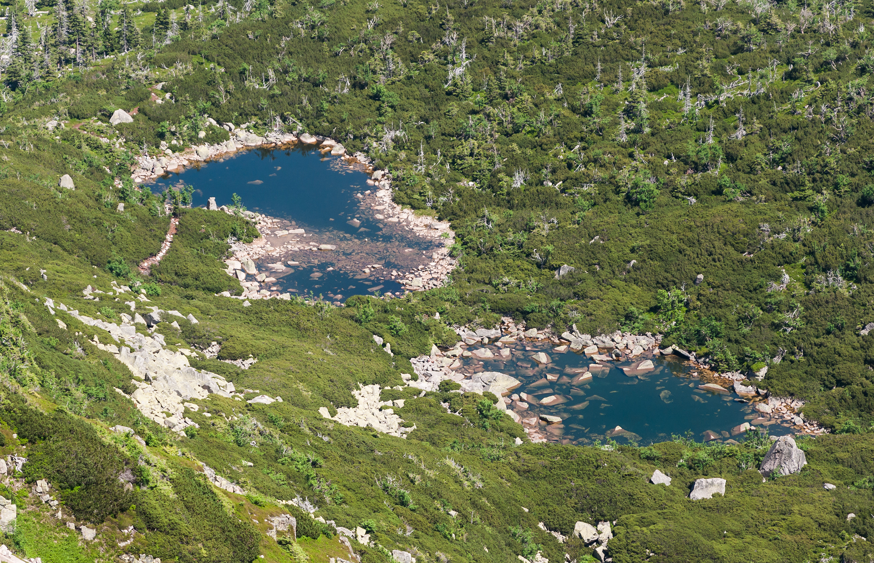 Śnieżne Stawki, Karkonosze, Sudetes